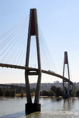 Skybridge (Vancouver) There were several complaints about the existing Skybridge image. I took several photos of the Skybridge and made them freely available via Flickr at en: VancouverBCSkybridge. -- 154.20.235.123 23:20, 9 August 2005 (UTC) -Retrieved from Talk:Skybridge (Vancouver): per [1]